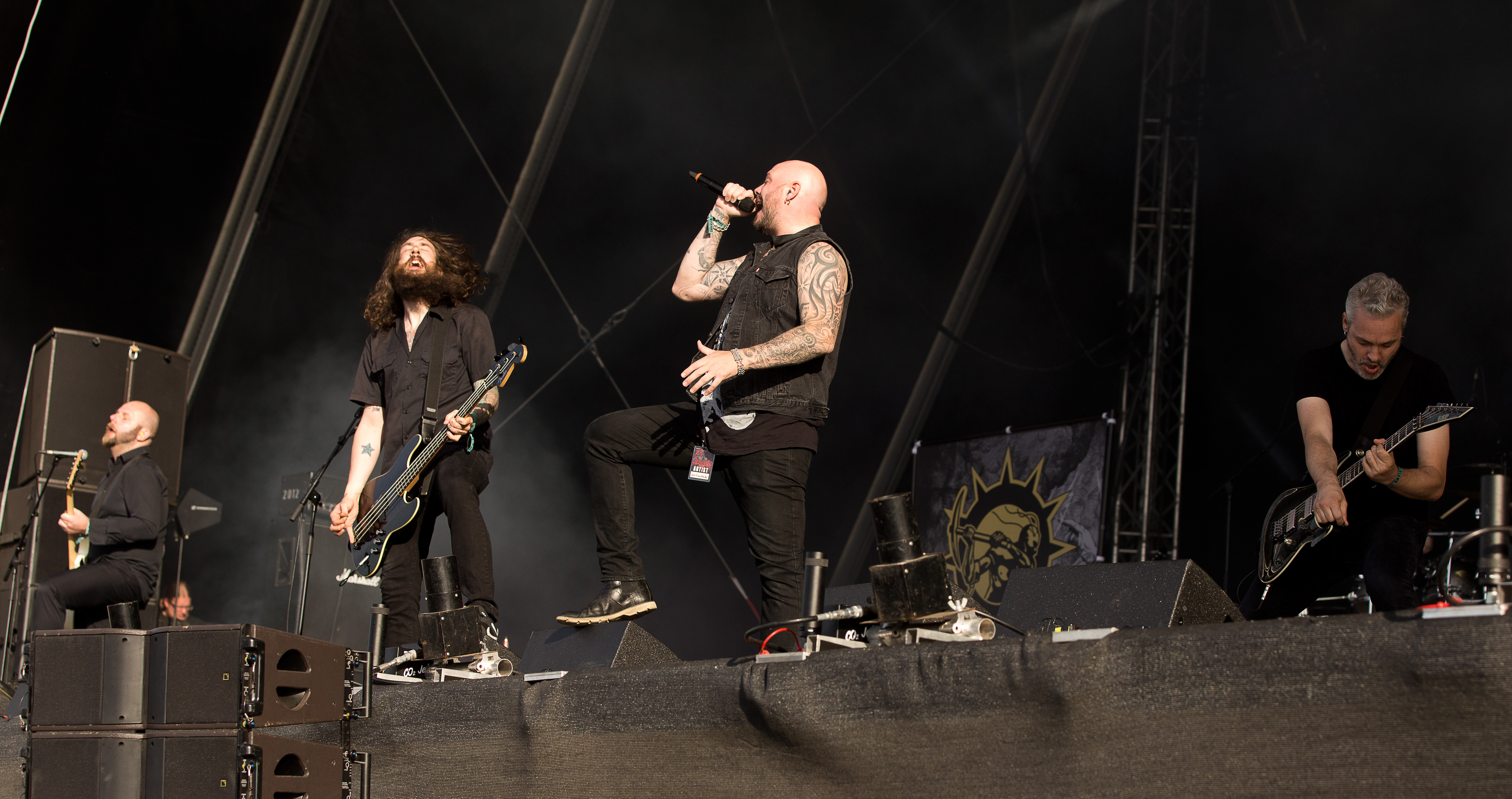 The Swedish melodic death metal band Soilwork at the Rockharz Open Air 2016 in Ballenstedt/Germany.